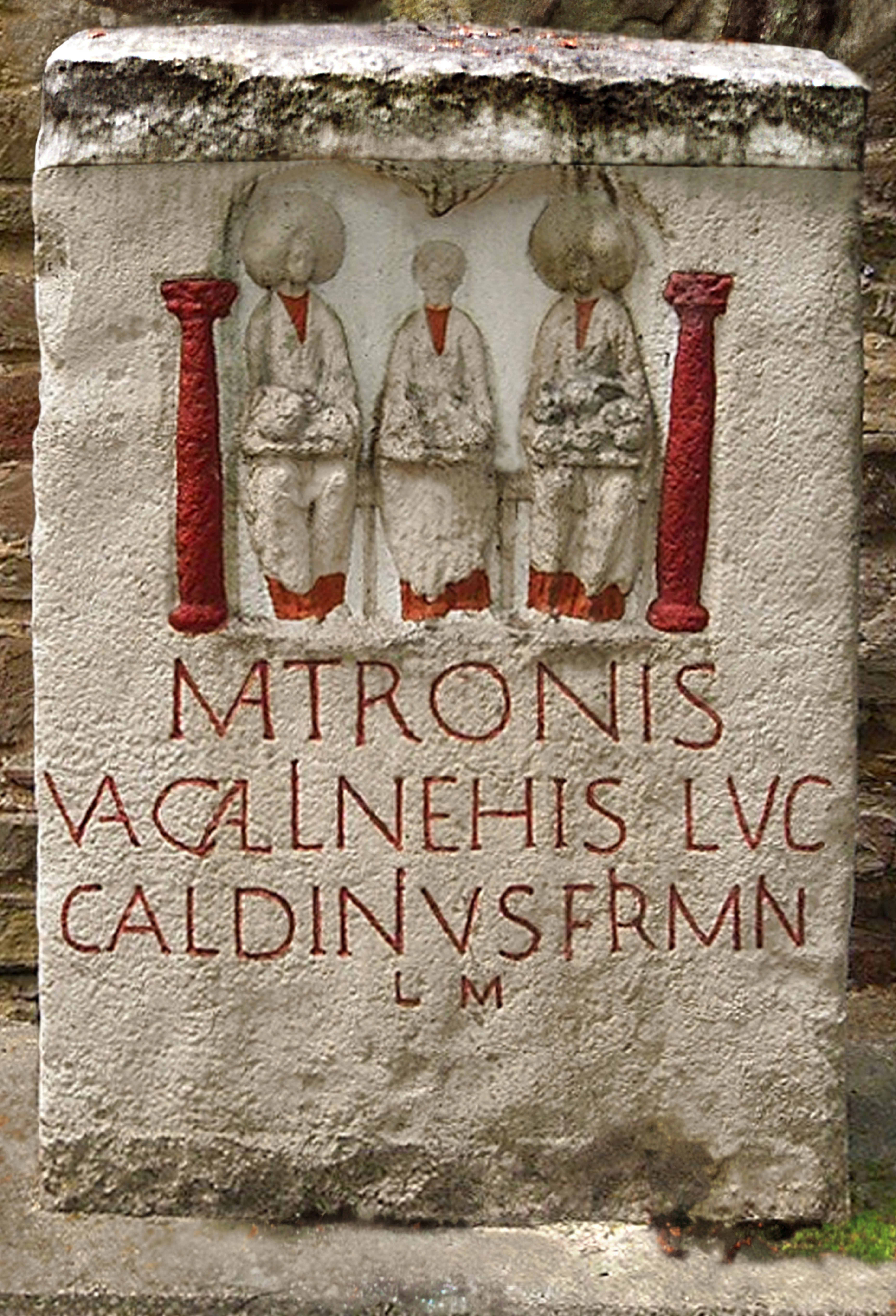 Gallo-Roman-Germanic Matres and Matrones: Replica of an altar for the Mothers of Vacallinia (Matronae Vacallinehae) from Mechernich-Weyer, Germany (EDCS-53400011, no CIL or AE). Same Object